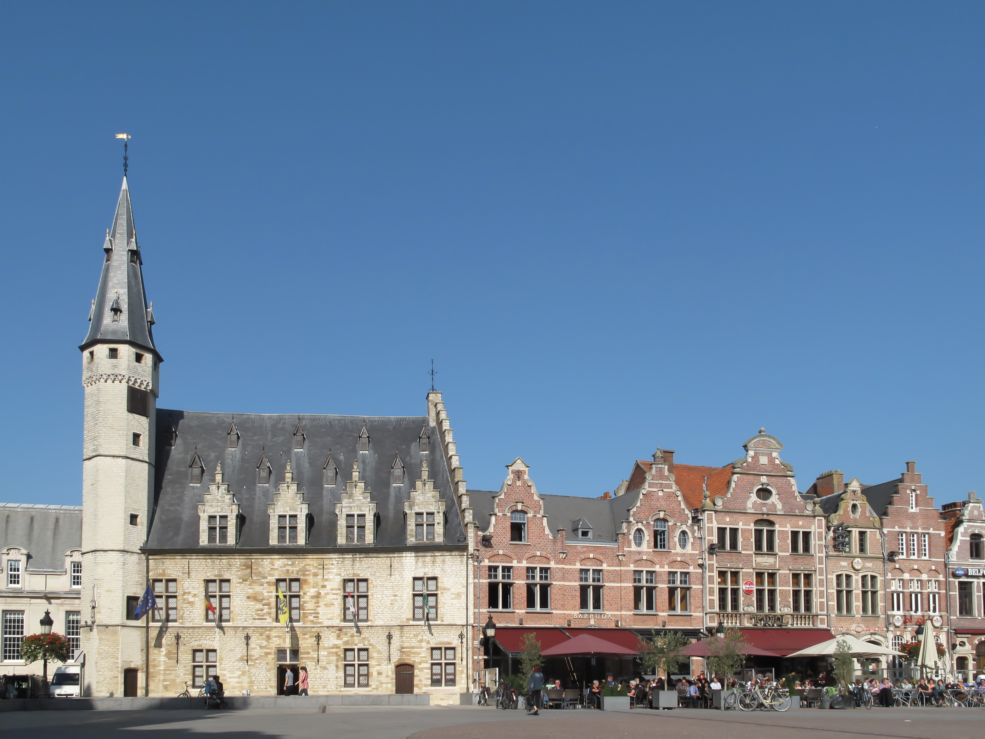 Dendermonde, monumental building on de Grote Markt